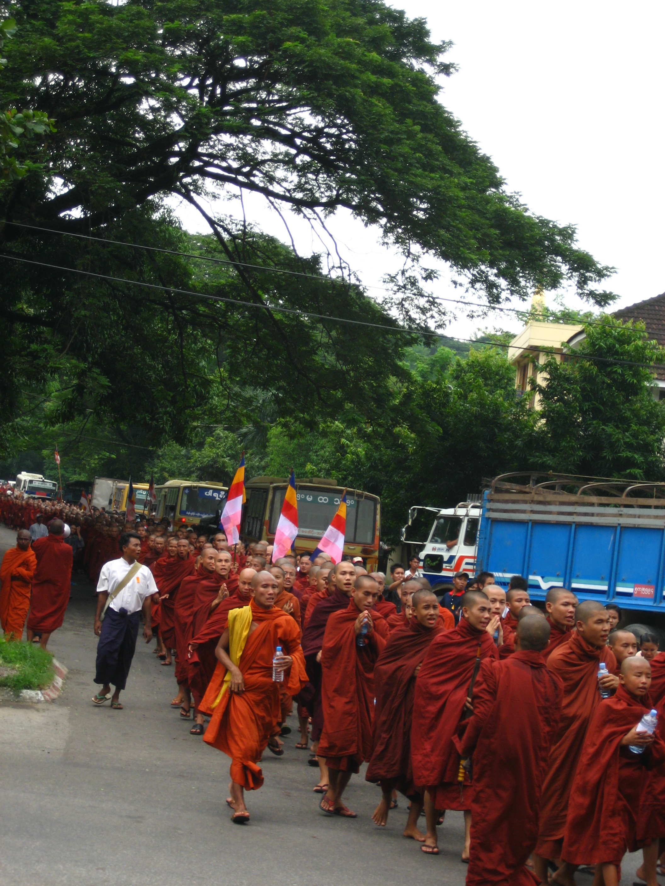 Monks Protesting in Burma